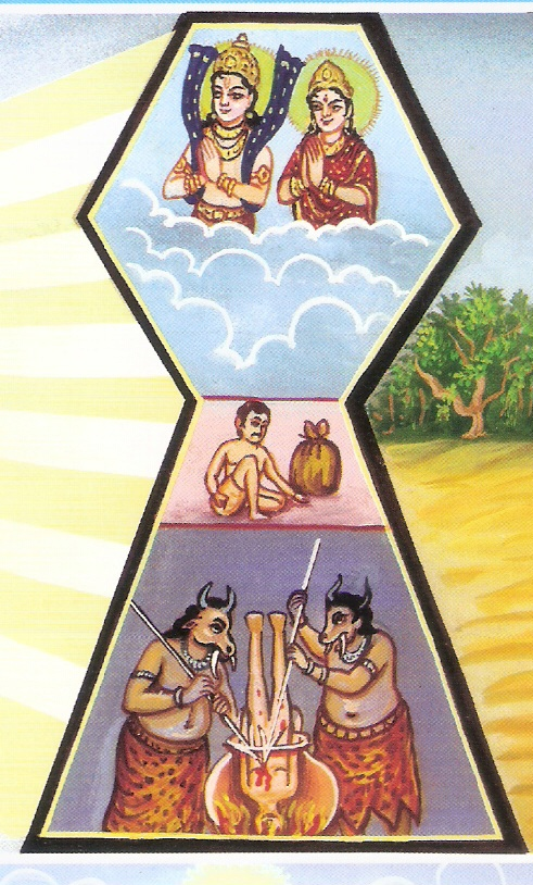 This image illustrates the Jain universe as per the Jain cosmology